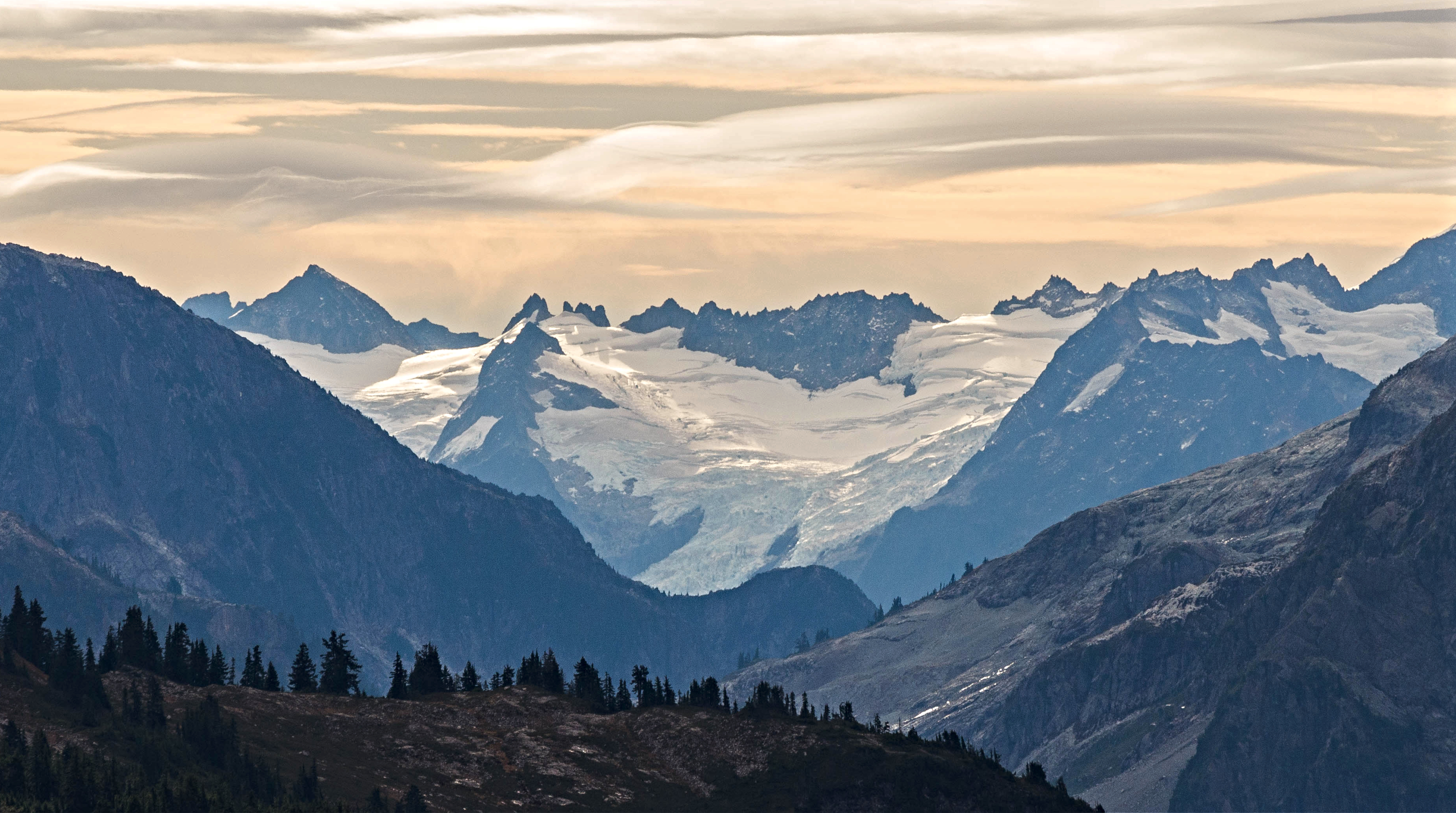 McAllister Glacier telephoto. North Cascades National Park.